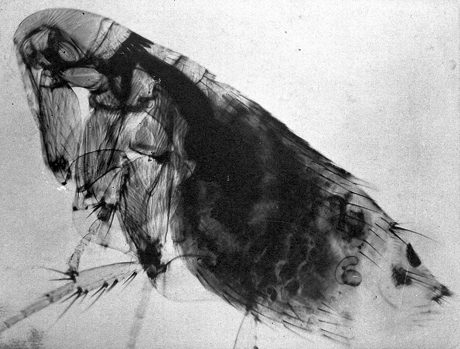 Plague investigations: rat fleas, etc Archives & Manuscripts Keywords: Plague